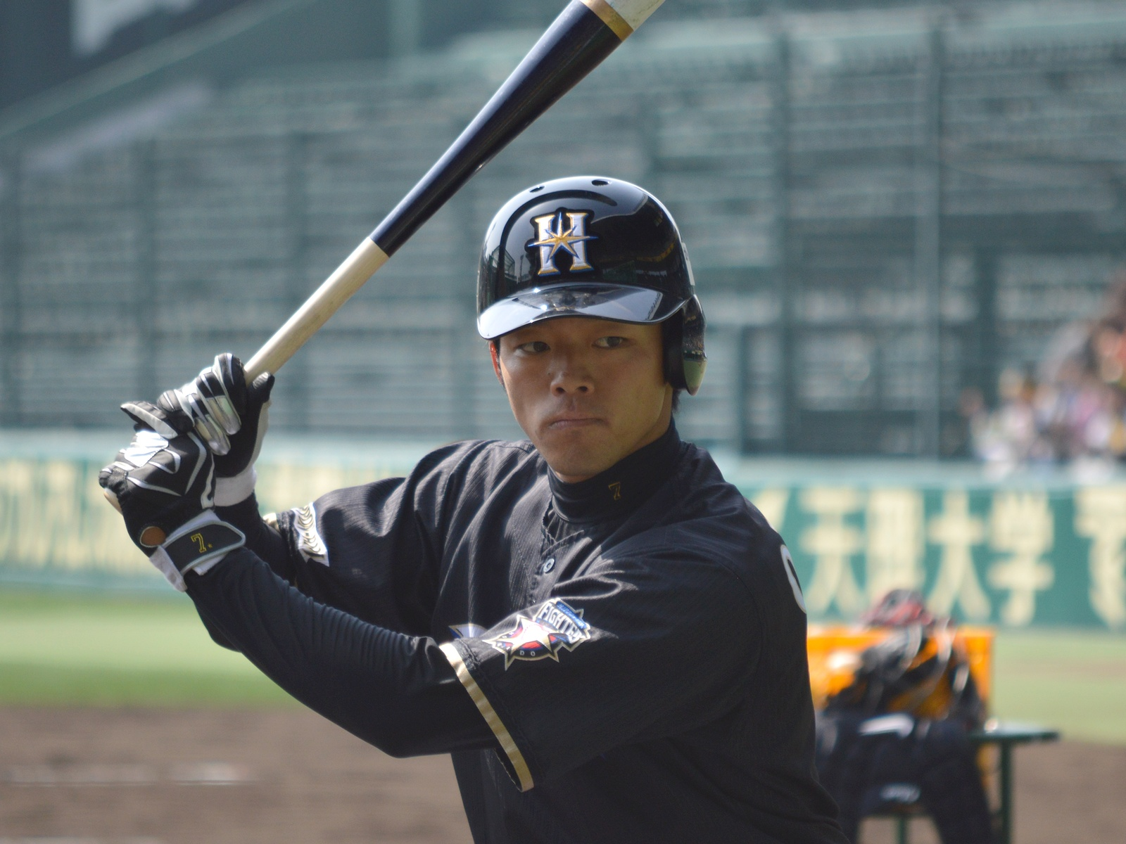 Keiji Obiki, infielder of the Hokkaido Nippon-Ham Fighters, at Hanshin Koshien Stadium.